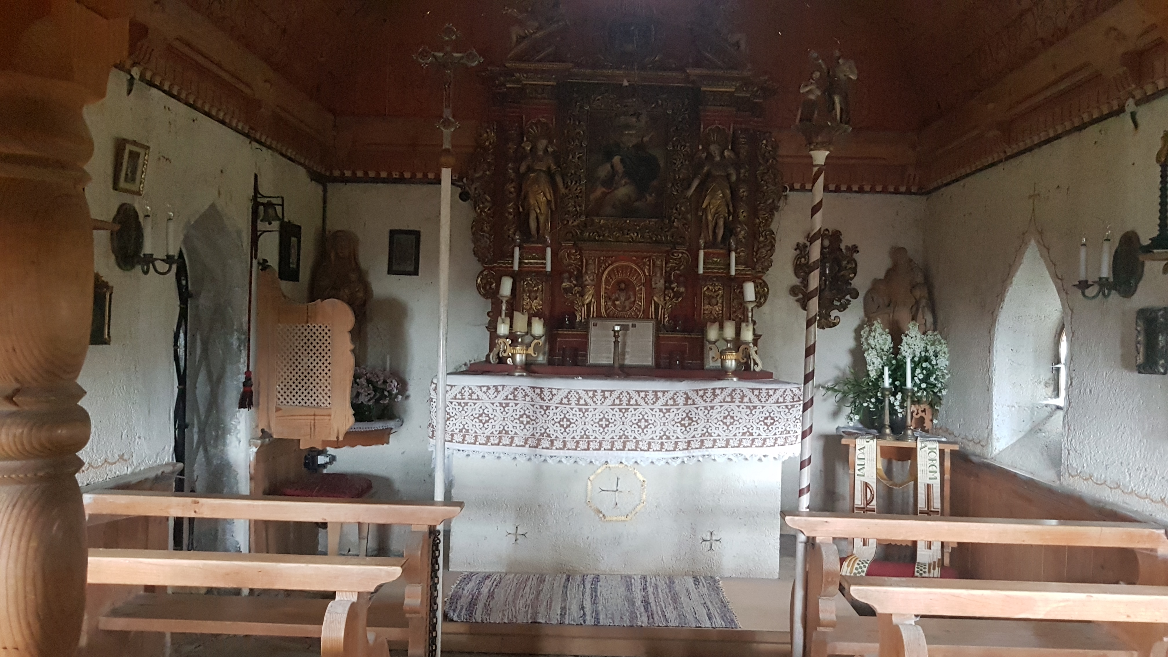 Chapel of St. Benedict on the alp "Hochaelpele" (about 1200 masl) in Schwarzenberg (Vorarlberg, Austria). 1921/1922 built according to plans by Fritz Fuchsenberger. Donated by Theodor and Maria Haemmerle from Dornbirn. Interior and altar.